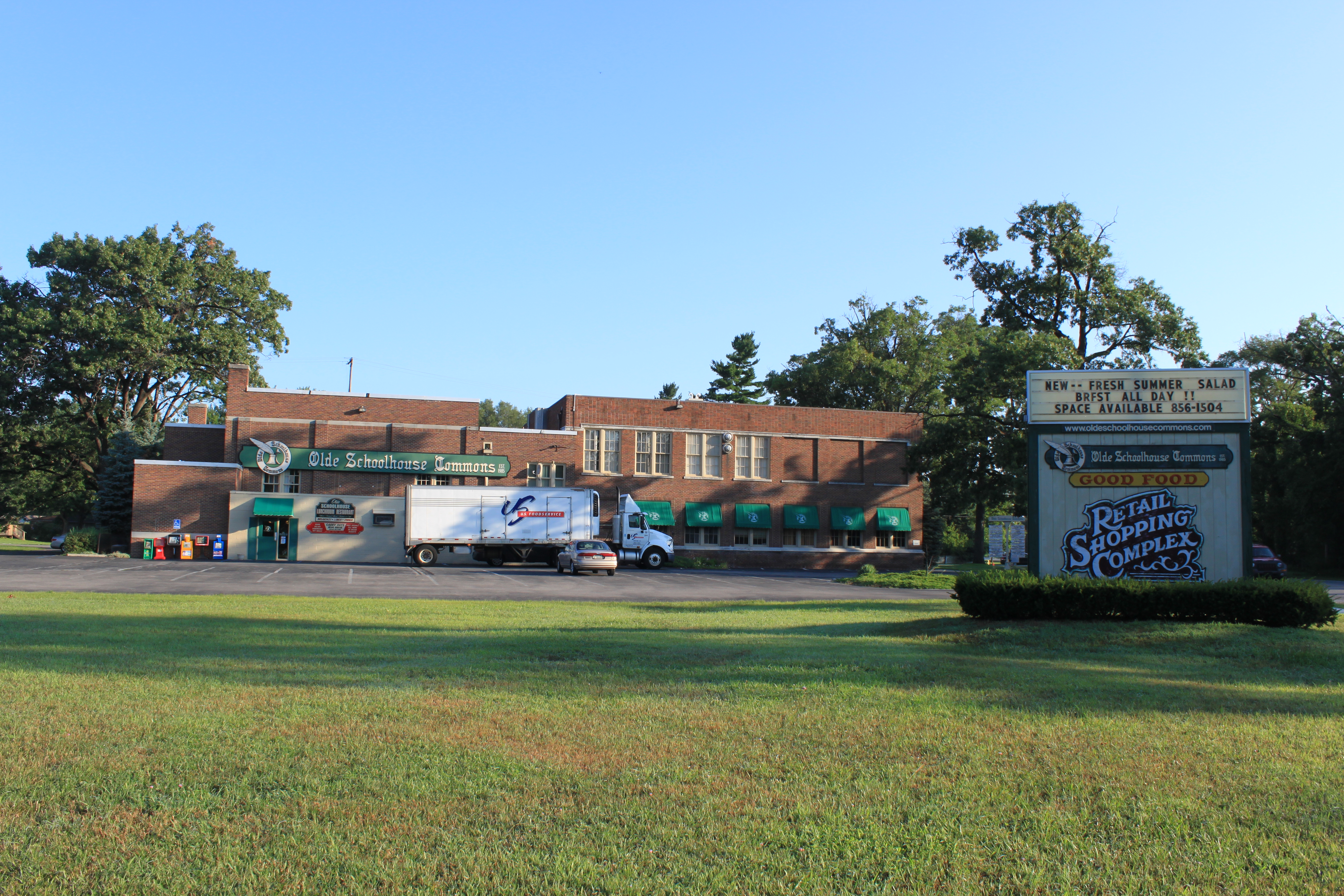 Lambertville Michigan, Olde Schoolhouse Commons, 8336 Monroe Rd., at Secor Rd.